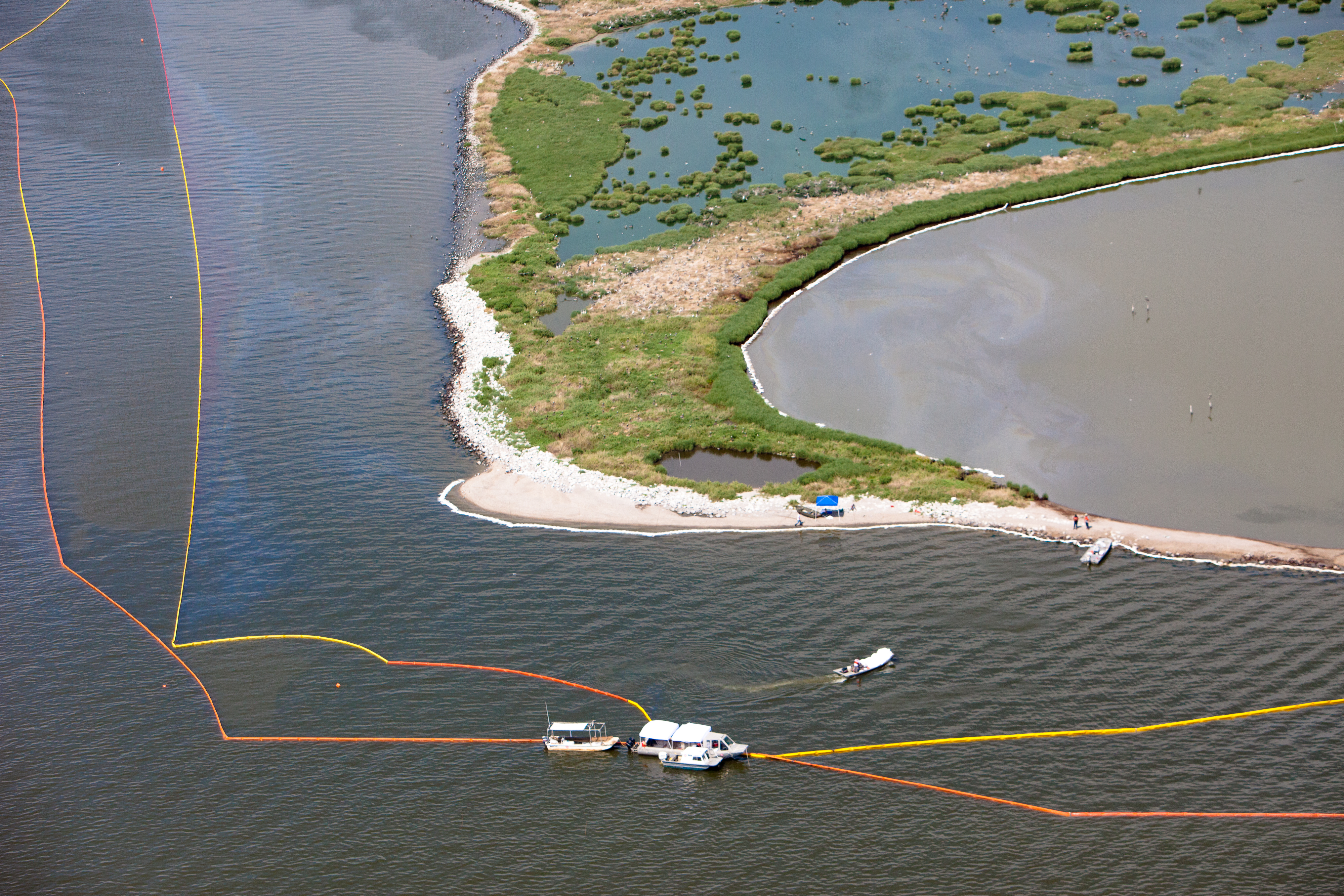 Boom used in an attempt to protect barrier islands during the Deepwater Horizon oil spill